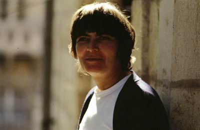 Photograph